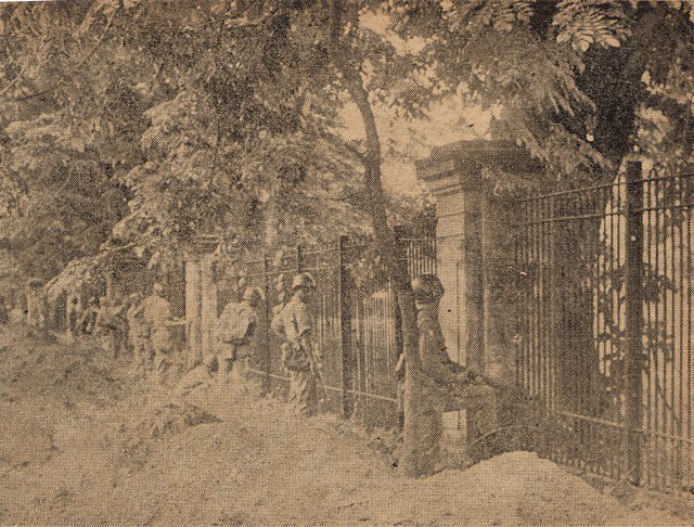 Soldiers sealed off the university campus and strike against the peaceful student protesters like the battle ground in July 7, 1962.